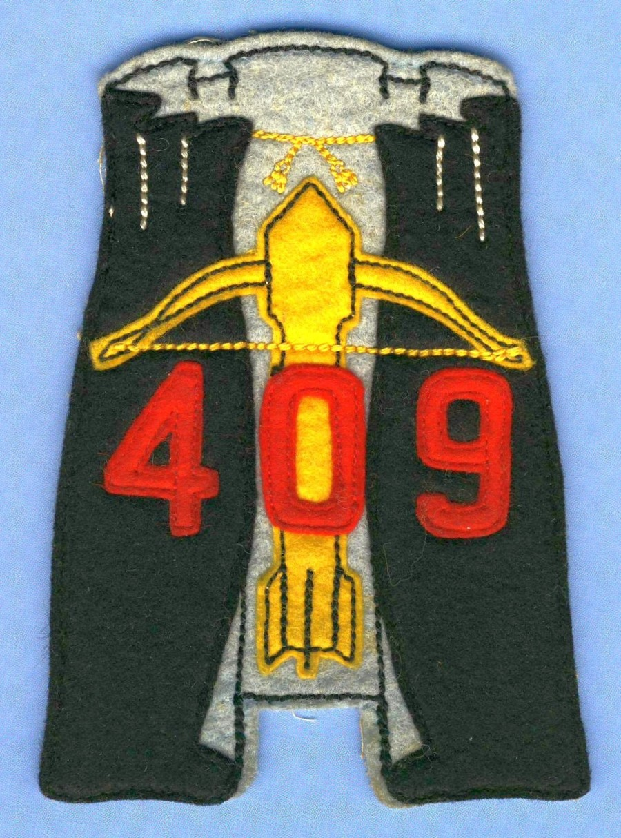 An early Cold War RCAF 409 flight suit patch circa 1955 when the Squadron was based at Comox, BC and flying CF-100's. The shoulder patch is undoubtedly manufactured by Crest Craft but the back-stamp has faded.